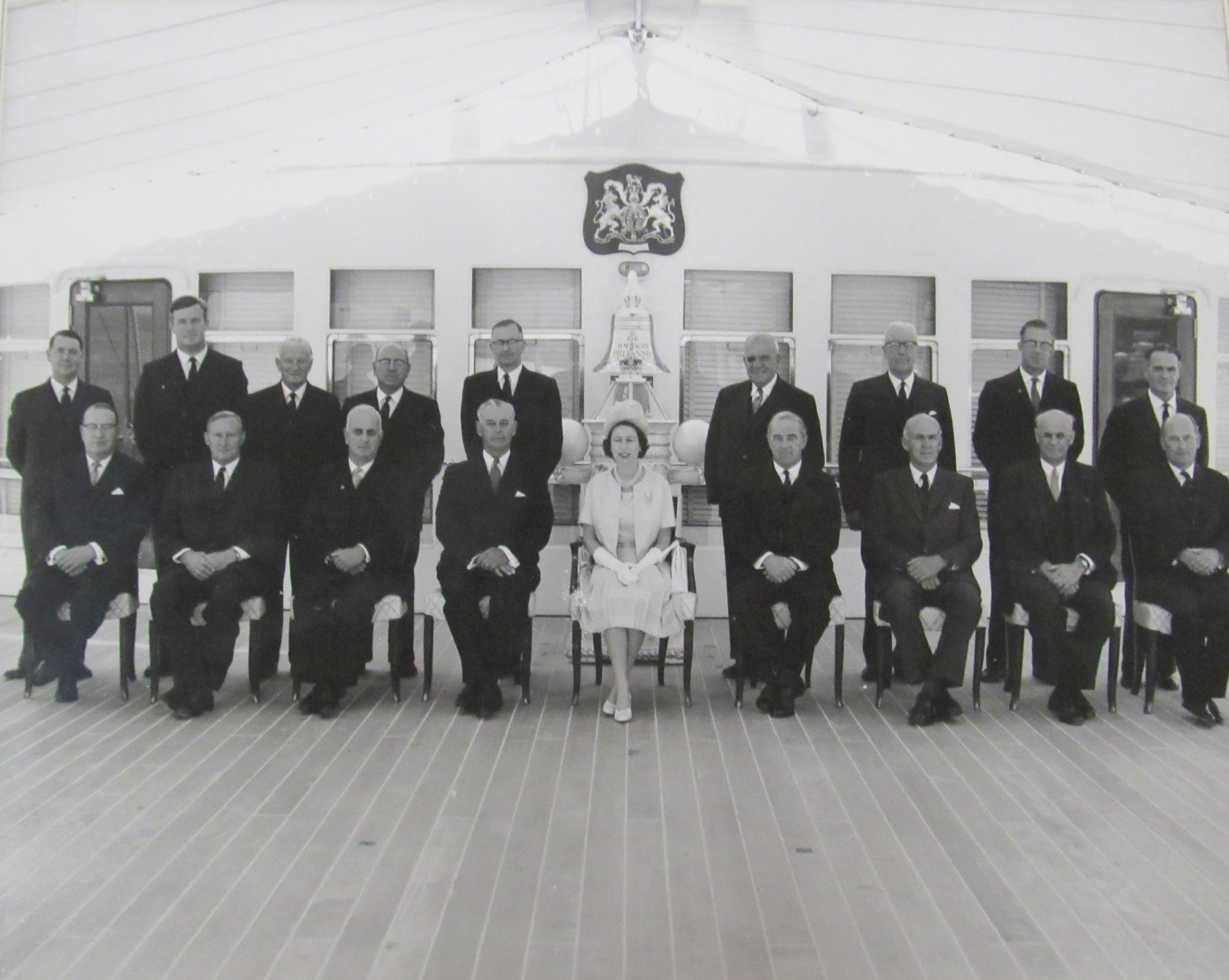 Queen Elizabeth II and New Zealand cabinet Front Row: Harry Lake; Tom Shand; Ralph Hanan; Prime Minister Keith Holyoake; H.M. Queen Elizabeth II; Jack Marshall; John McAlpine; Stan Goosman; Dean Eyre Back Row: David Seath; Brian Talboys; Norman Shelton; John Rae; Geoff Gerard; Sir Leon Gotz; Blair Tennent; Arthur Kinsella; Donald Norman McKay